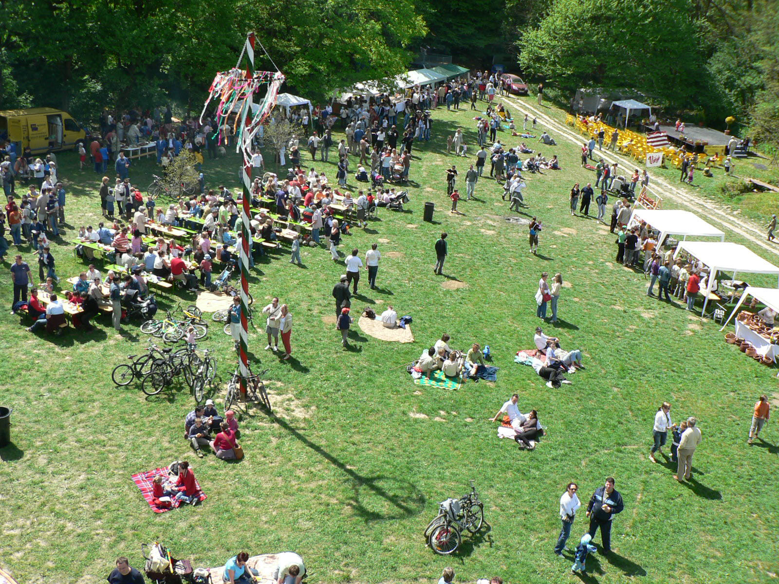 Jegenye-völgyi nagytisztás a levegőből